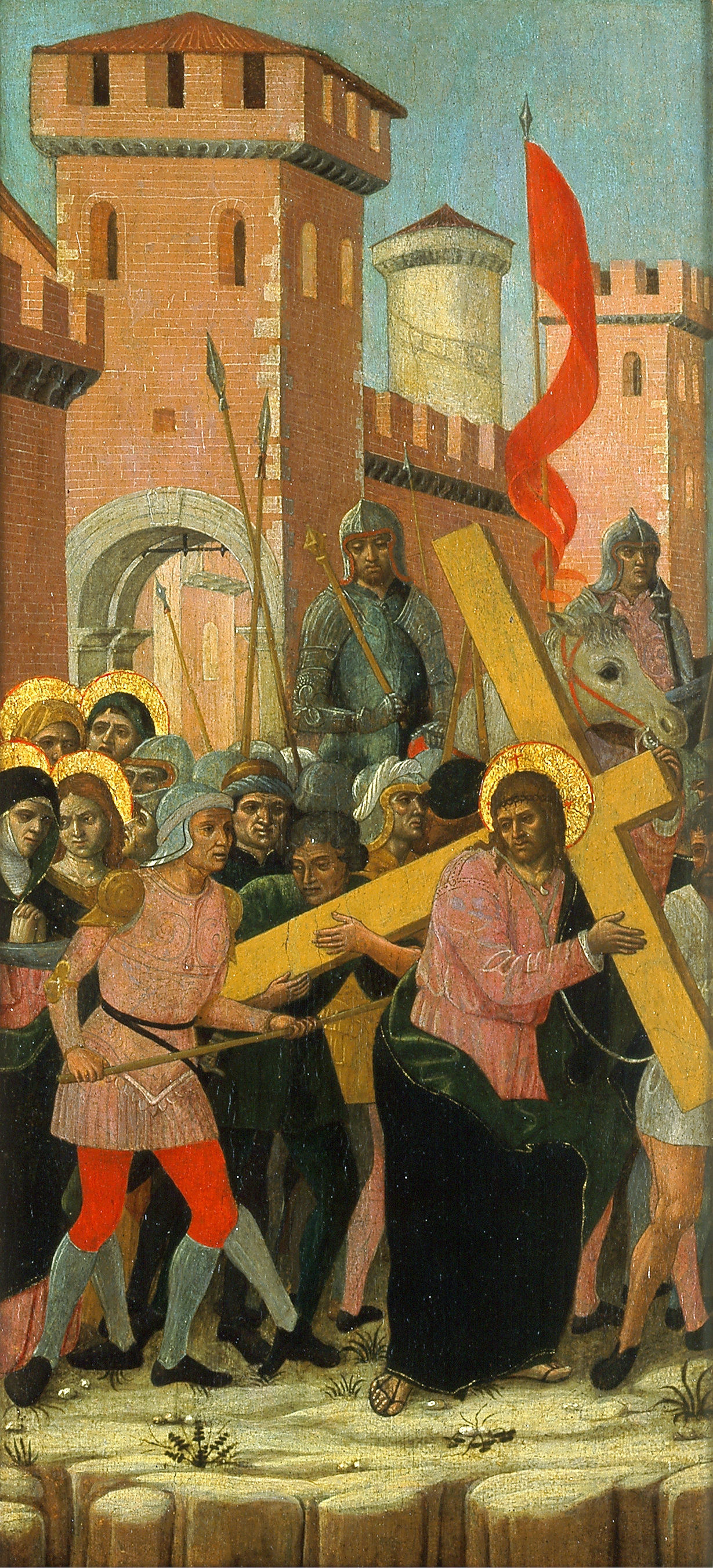 Christ on the Road to Calvary (c. 1500) by Giovanni Ambrogio Bevilacqua, Blanton Museum of Art, Austin, TX